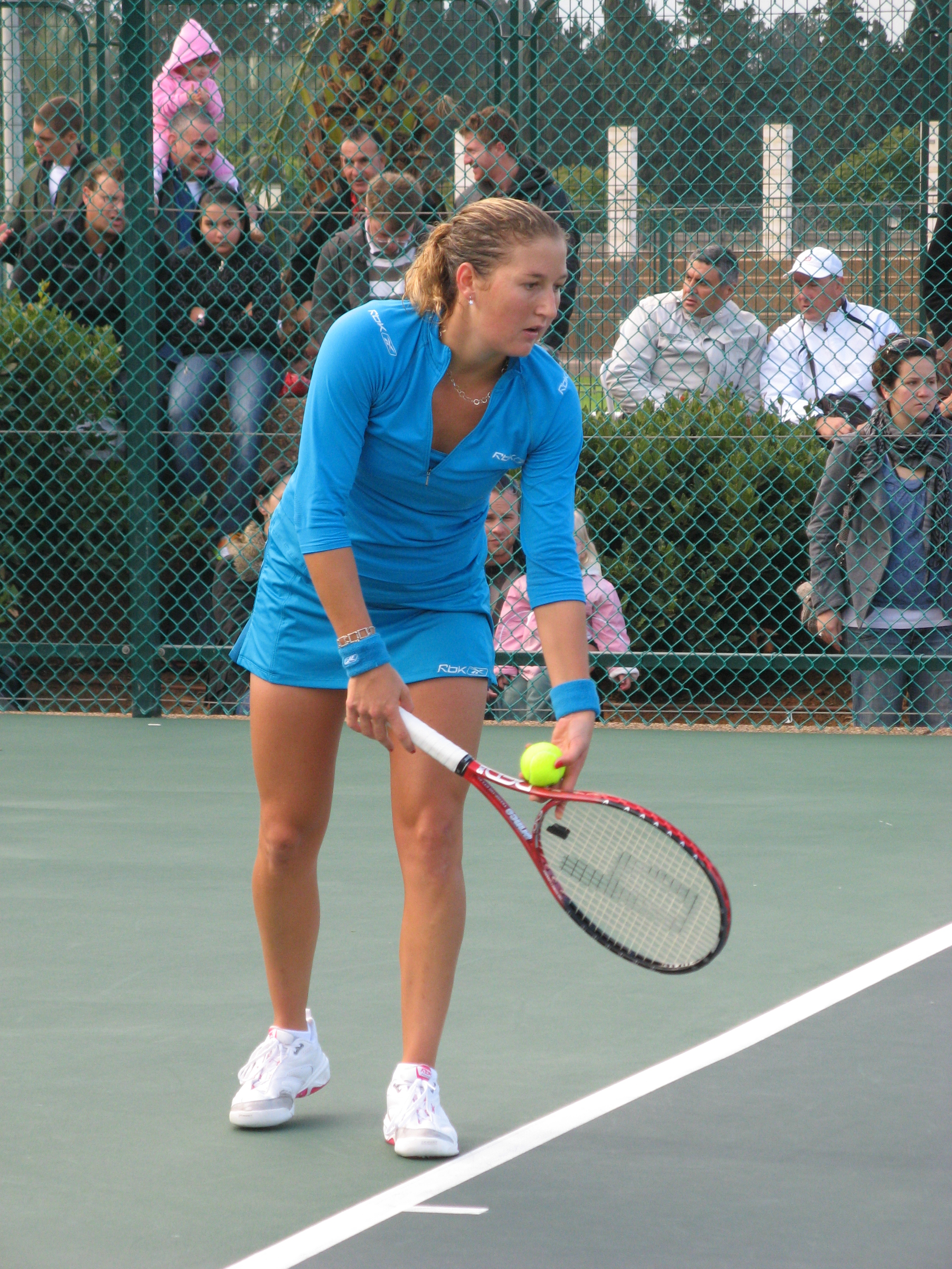 Israeli tennis player Shahar Pe'er at the Israel tennis championship 2008 semi final against Julia Glushko